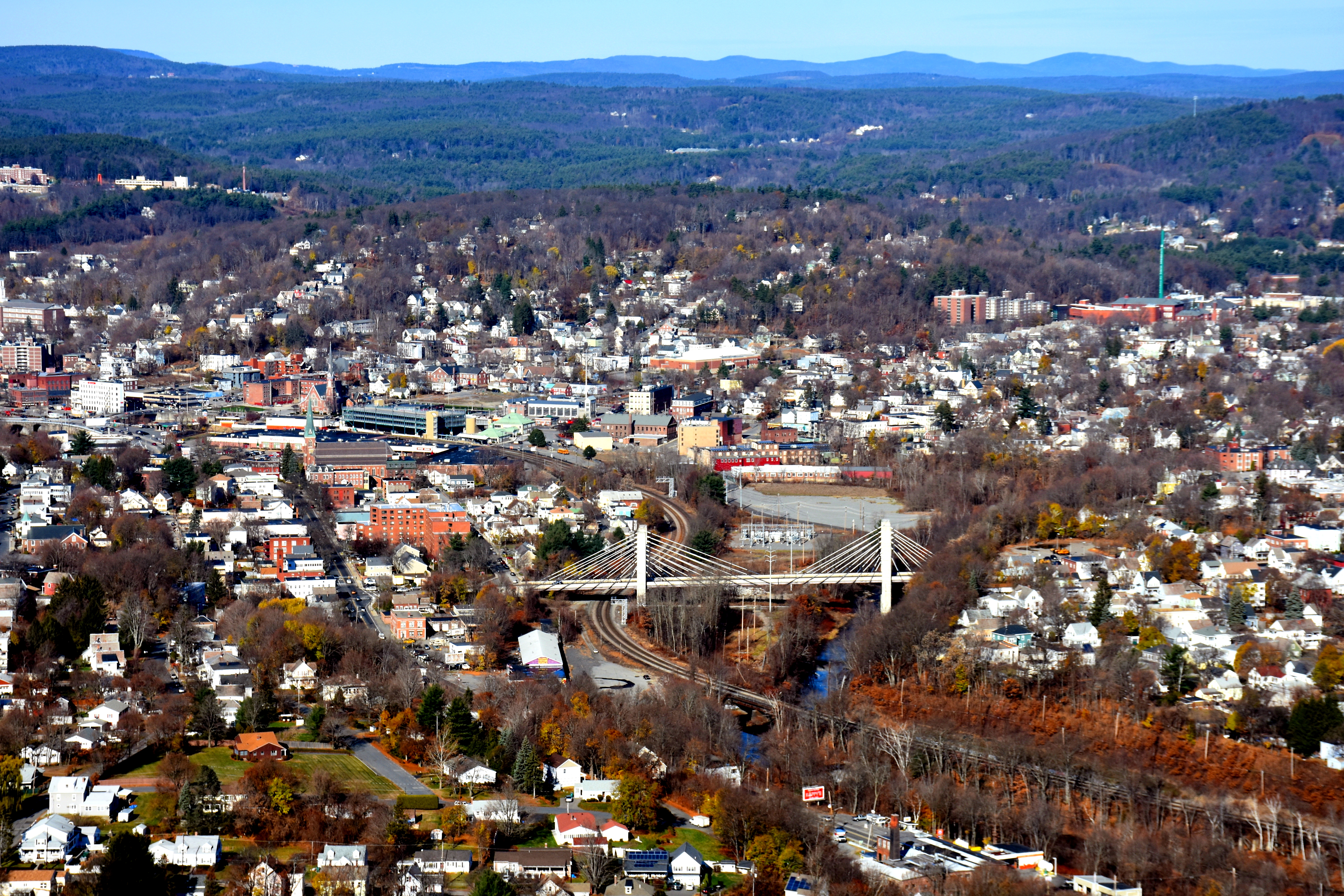 Aerial view of central area of Fitchburg, Massachusetts, including Nashua River, rail tracks, and commuter rail station.